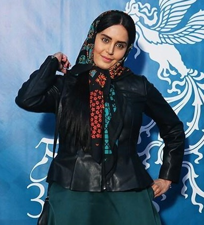 Day 4 of 35th Fajr International Film Festival at Mellat Pardis